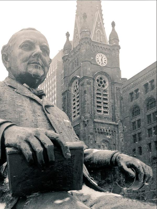 Statue of Tom Johnson holding Henry George's famous book, Progress and Poverty. Photo taken by Scott Roger Hurley. Use permission obtained from artist.